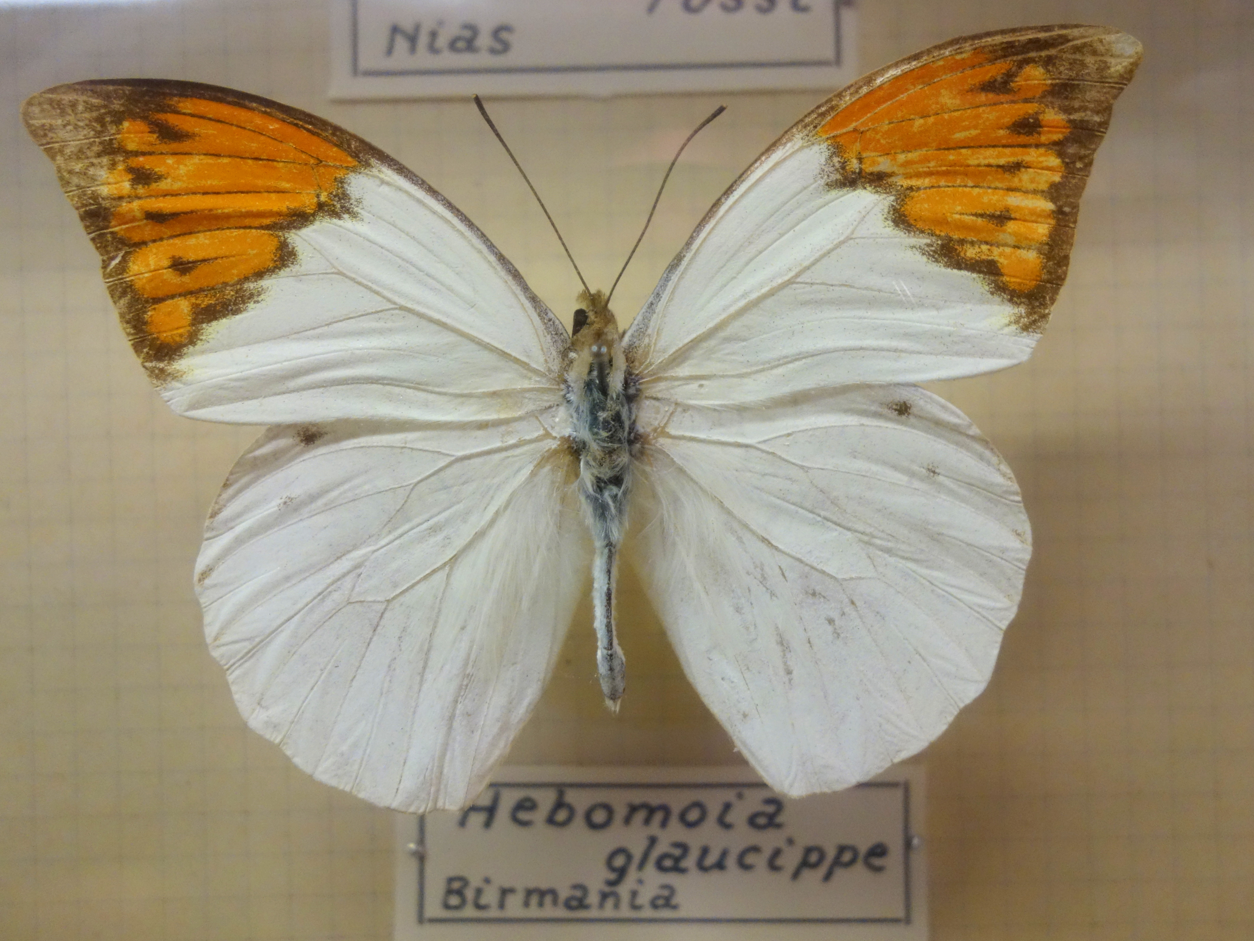 Exhibit in the Museo Civico di Storia Naturale di Genova, Via Brigata Liguria, 9, 16121, Genoa, Italy.